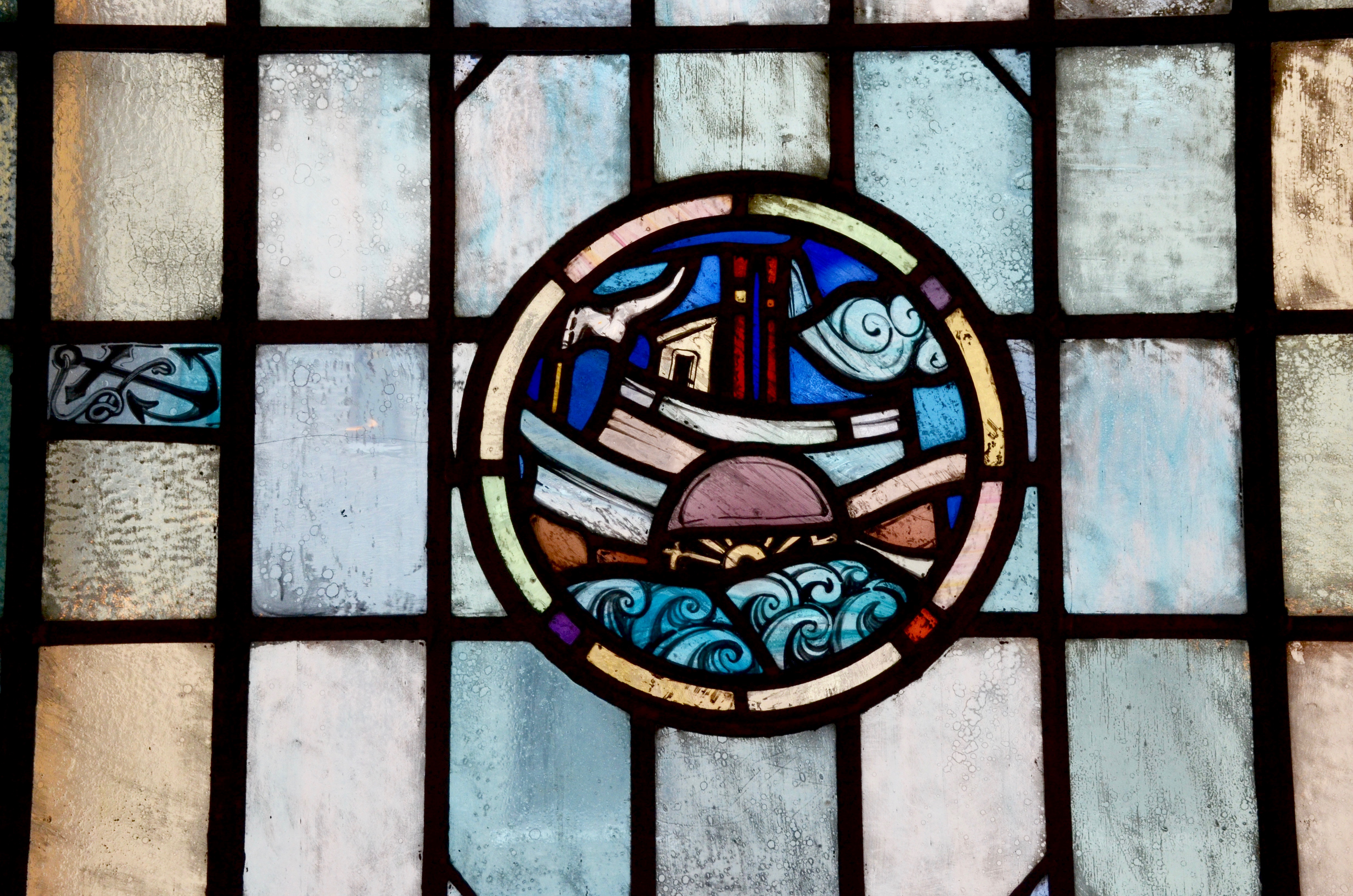 Detail view of a stained-glass window in the board room of the United States National Bank Building, in Portland, Oregon, featuring a sidewheeler. The window was produced by Portland's Povey Brothers Studio.